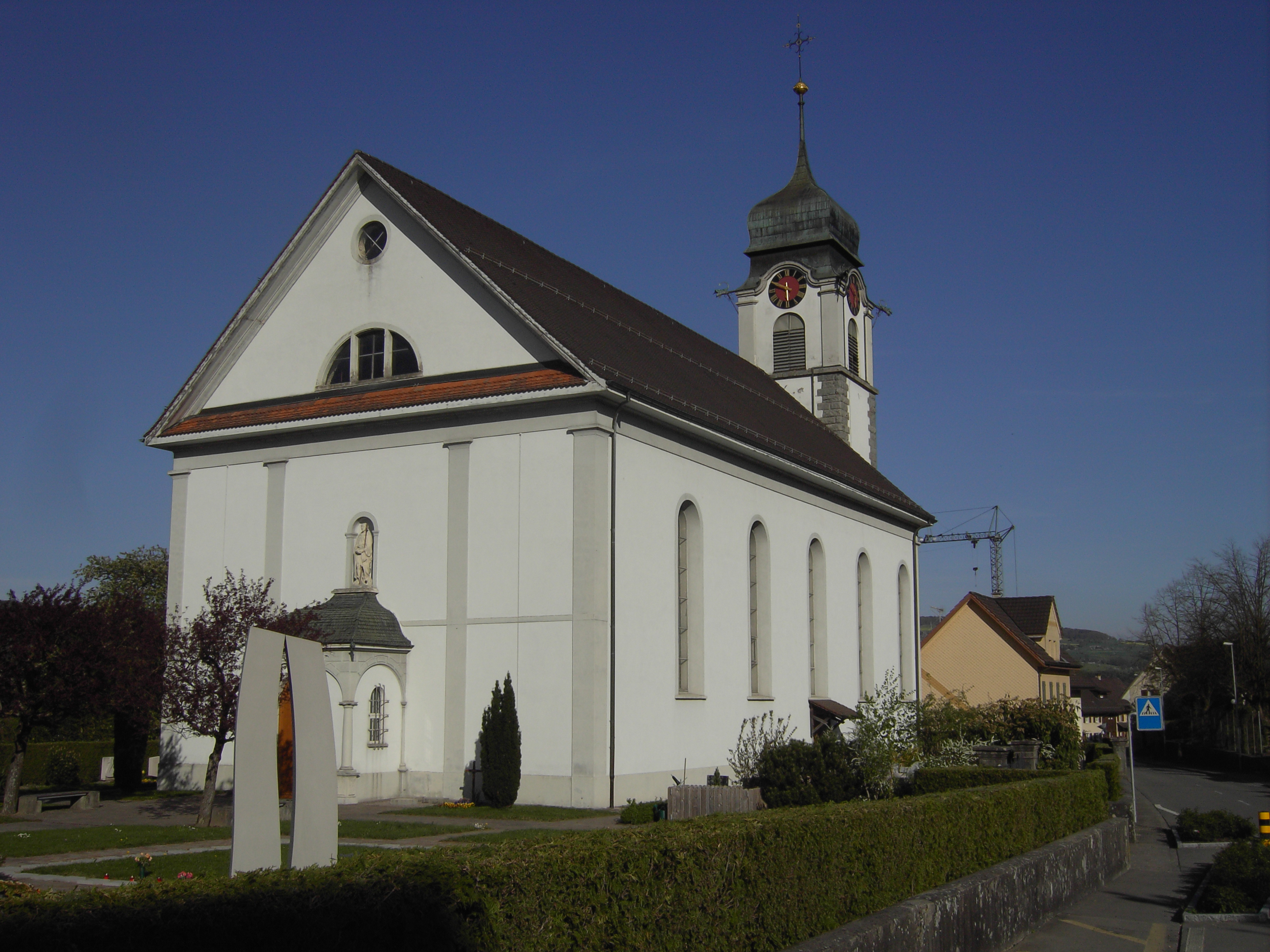 Rom.-Cath. Church of Tägerig AG, Switzerland